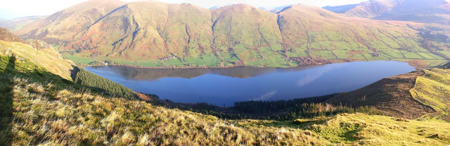 Panorama of Llyn Cwellyn taken from Mynydd Mawr